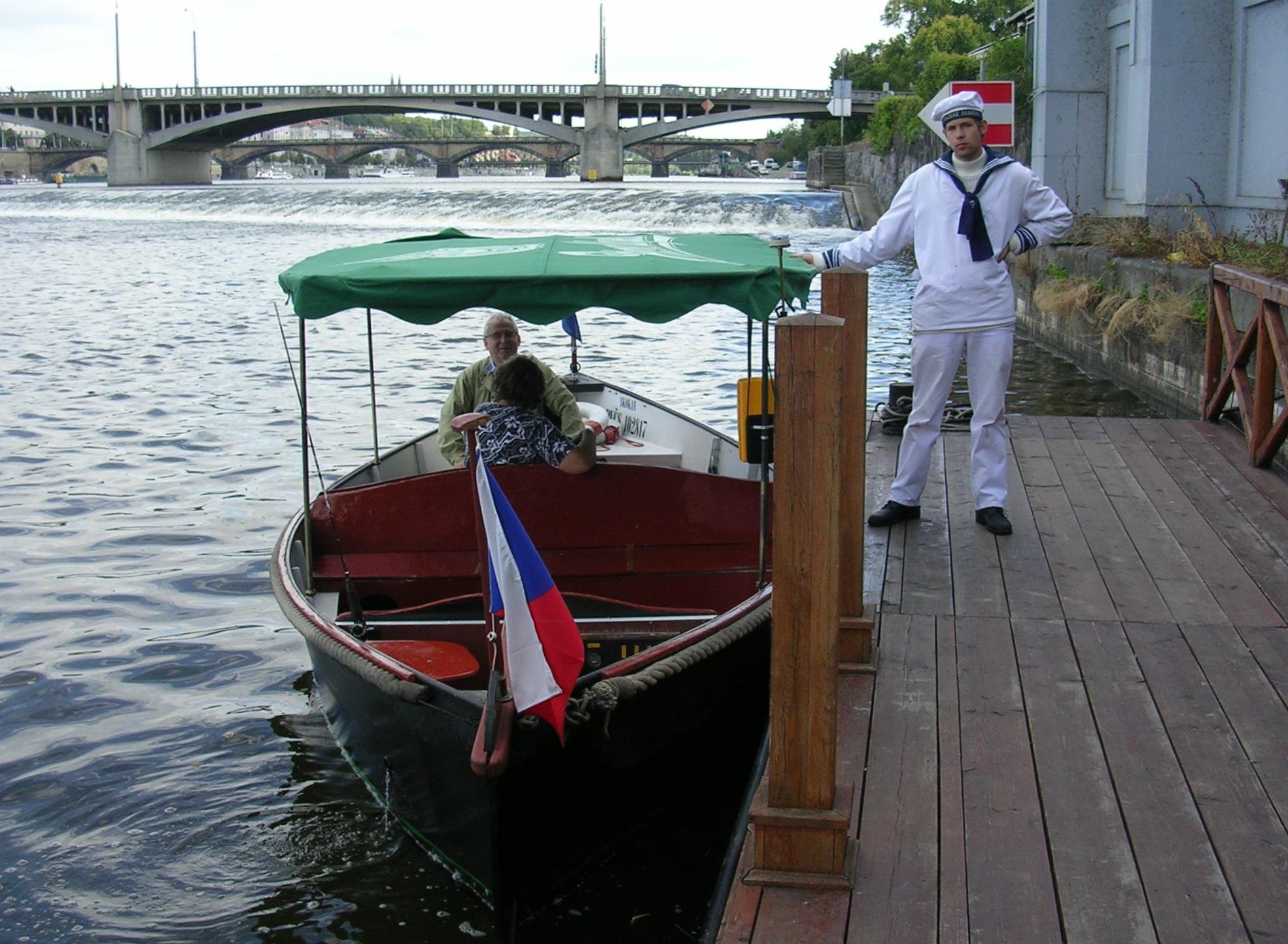 Ferry P4, Prague, the Czech Republic.